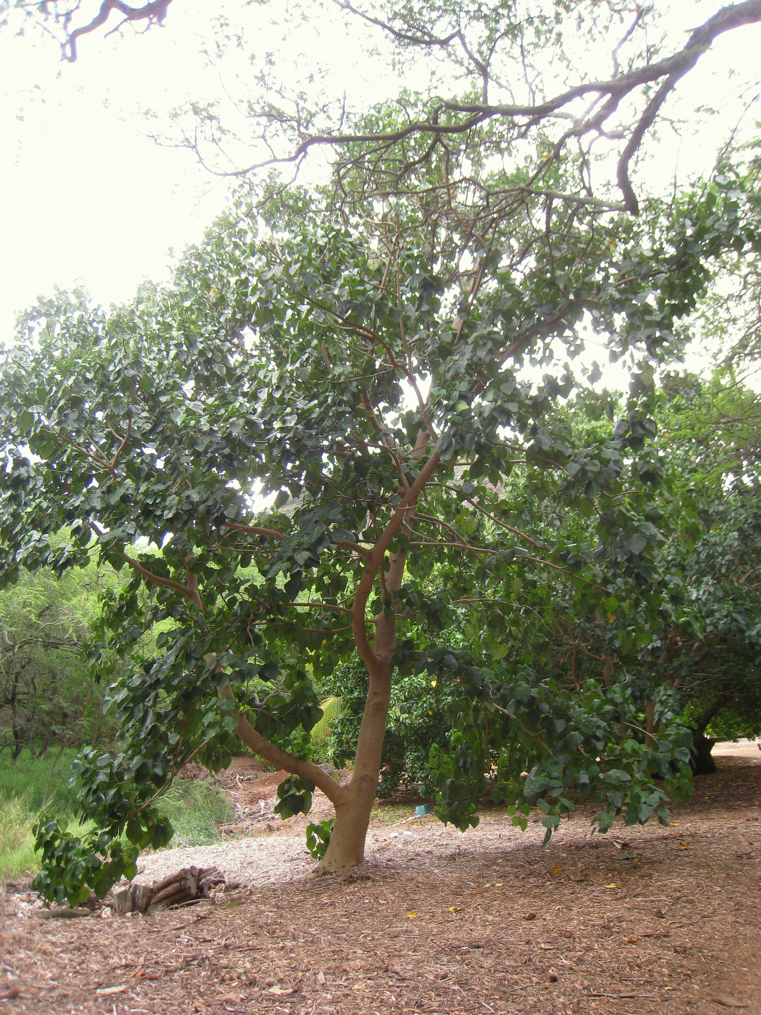 Hernandia nymphaeifolia in the Koko Crater Botanical Garden, Honolulu, Hawaii, USA.